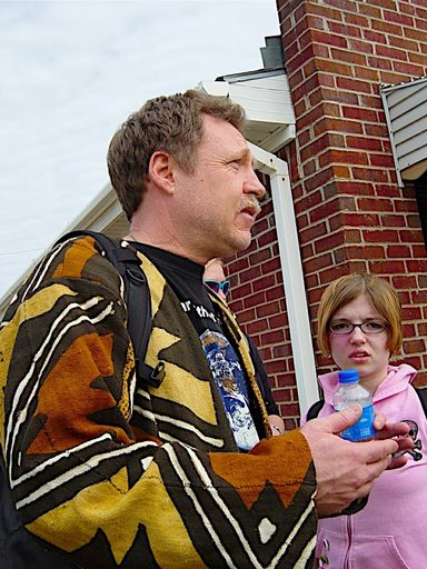 Bob Wood in Alabama wearing a mudcloth jacket.